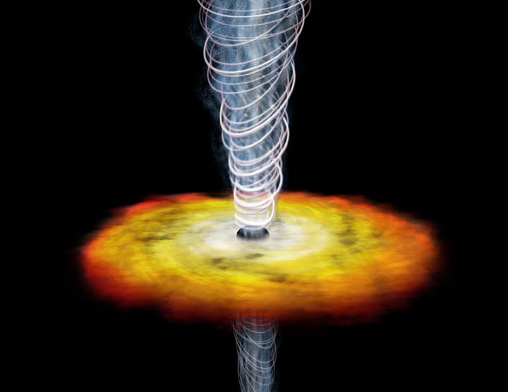 Artist's impression of quasar GB1508